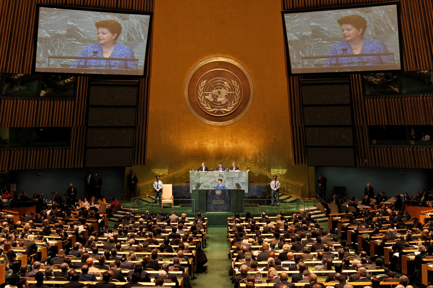 The President of Brazil, Dilma Rousseff, opens the General Debate of the 66th Session of the General Assembly of the United Nations. New York, September 21, 2011.